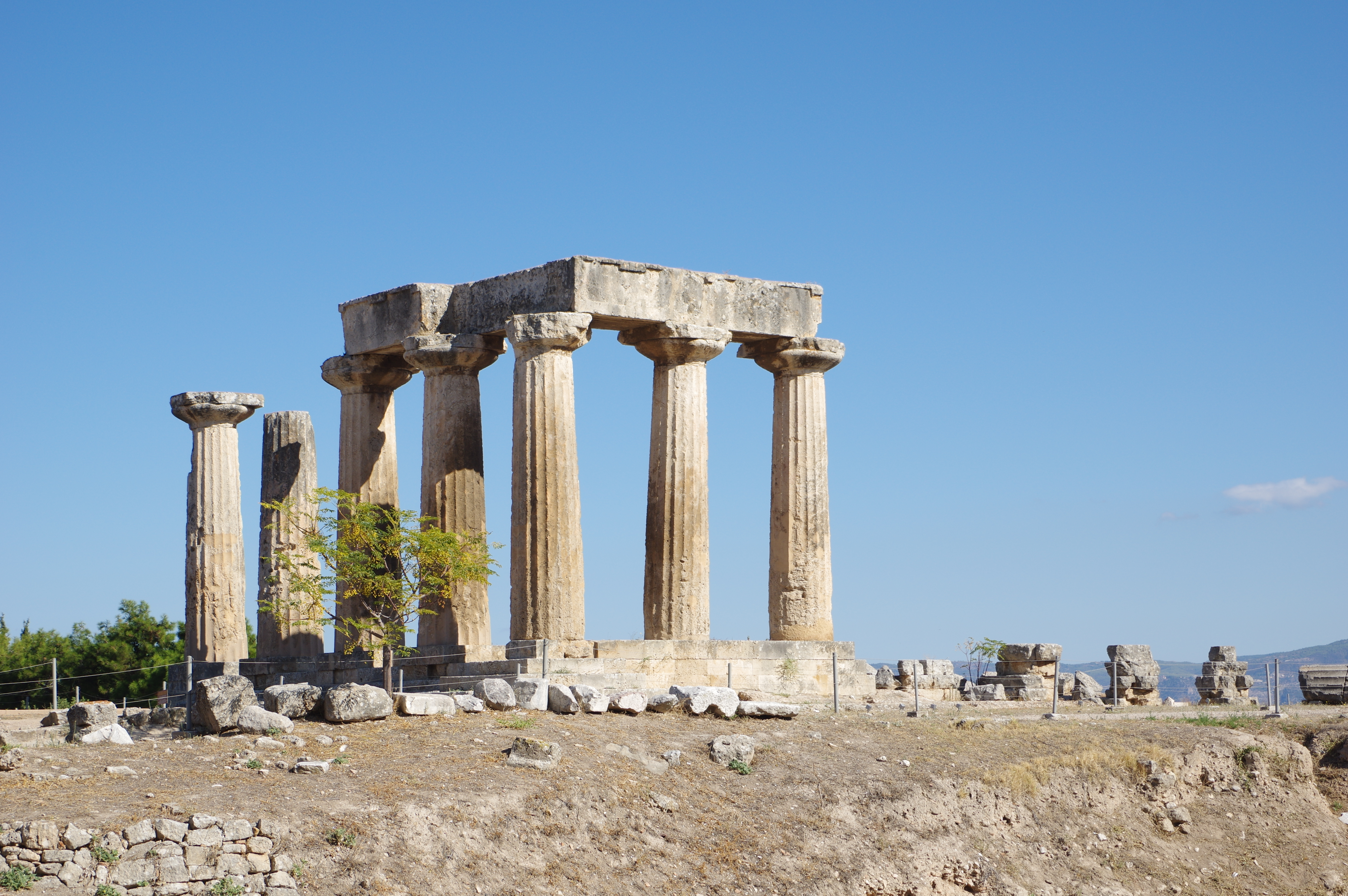 Greece, Ancient Corinth, Temple of Apollo